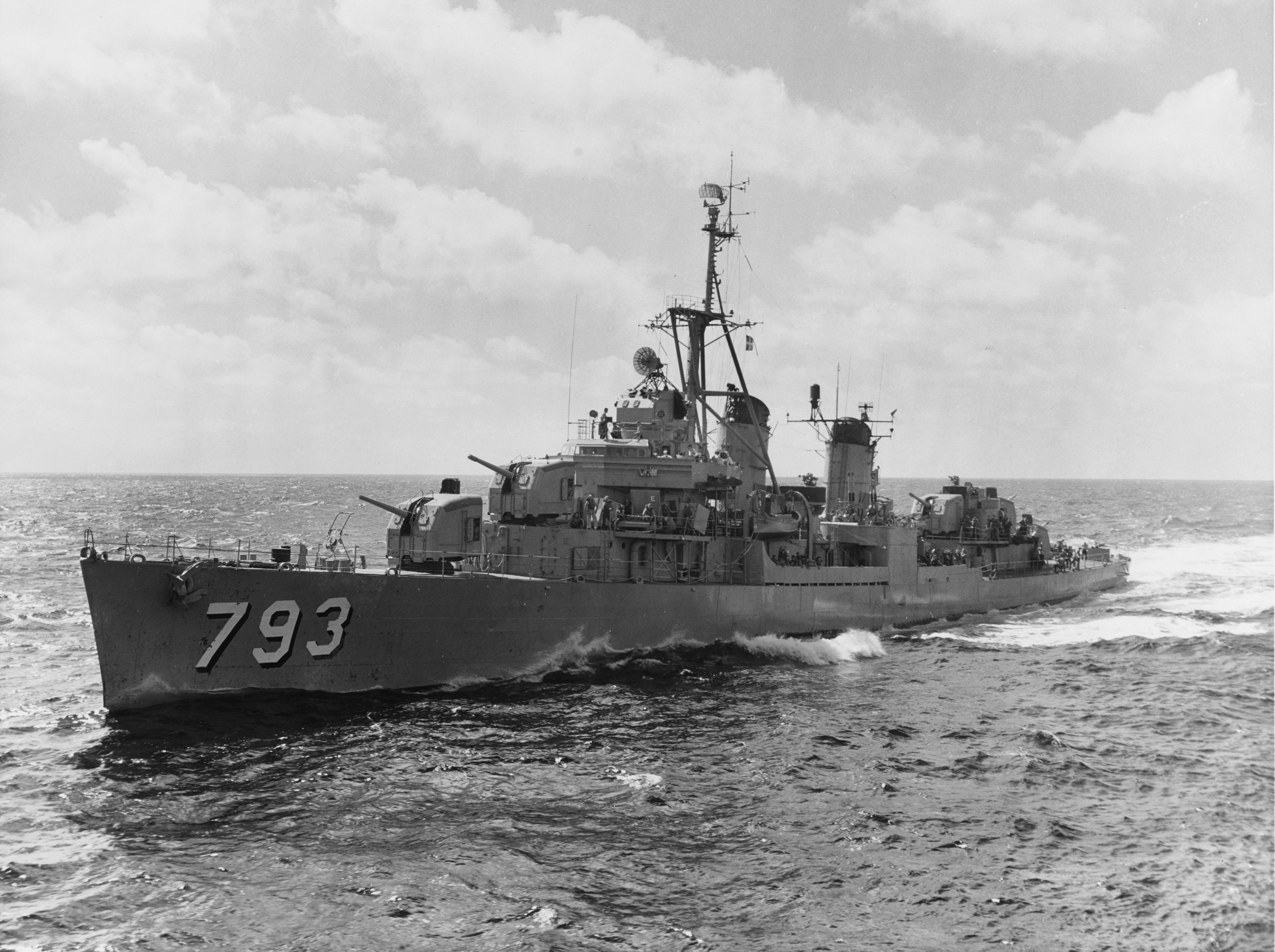 The U.S. Navy USS Cassin Young (DD-793) underway on 14 January 1958. Note that she had no main search radar at this time.